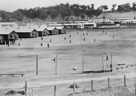 Sourced from: Copyright: The AWM record for this photo states that the copyright status is 'clear'. The photo was taken on 1944-07-01. The AWM requests that you assist their record keeping by keeping the image number and watermark intact. Given that this image is in the public domain, it is not clear that the AWM has any legal basis to enforce their request. AWM Caption: Cowra, NSW. 1944-07-01. Japanese prisoners of war practising baseball on their sports ground near their quarters, at the 12th prisoner of war camp. These photographs were taken for the far east liaison office as a basis for propaganda leaflets to be dropped over Japnanese held islands and the Japanese mainland. No. 12 Prisoner of War Camp, Cowra, Australia. 1 July, 1944. Japanese prisoners of war practice baseball on the sportsground near their quarters, several weeks before the Cowra breakout. This photograph was taken for the Allied Far Eastern Liaison Office, with the intention of using it in propaganda leaflets, to be dropped over Japanese held islands and Japan itself. (The copyright was owned by the Australian War Memorial. The full copyright message, which was attached to this picture when it was downloaded on August 24, 2005, is at )